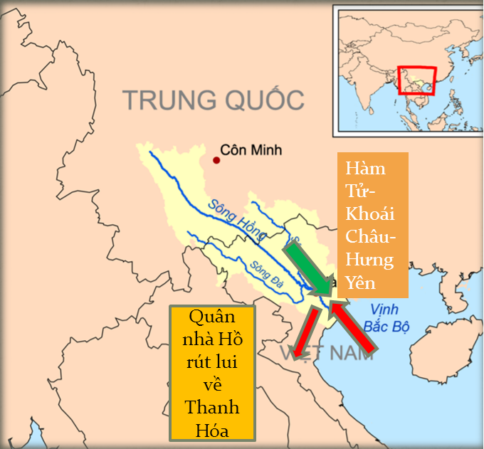 Minh Dai Ngu